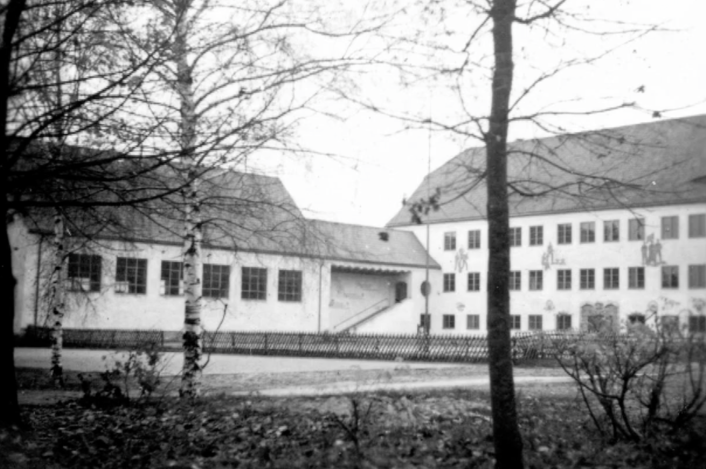 Weinberg Gymnasium Old (Date may not correct)